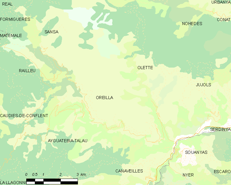 Map of French municipality